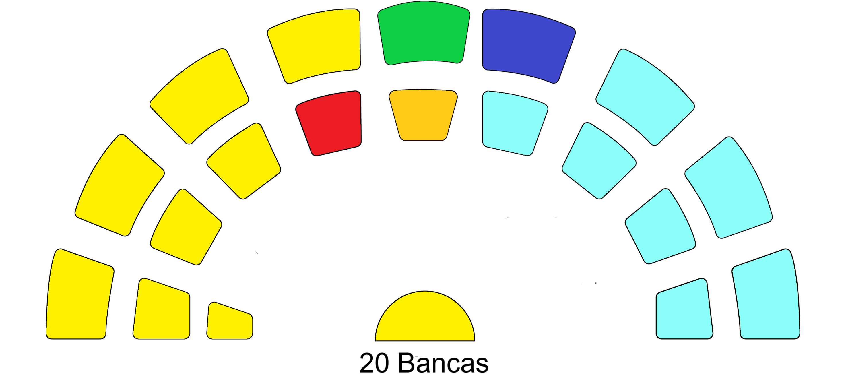 Deliberative Council of the municipality of Berisso